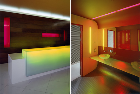 Photograph by Aleš Jungmann